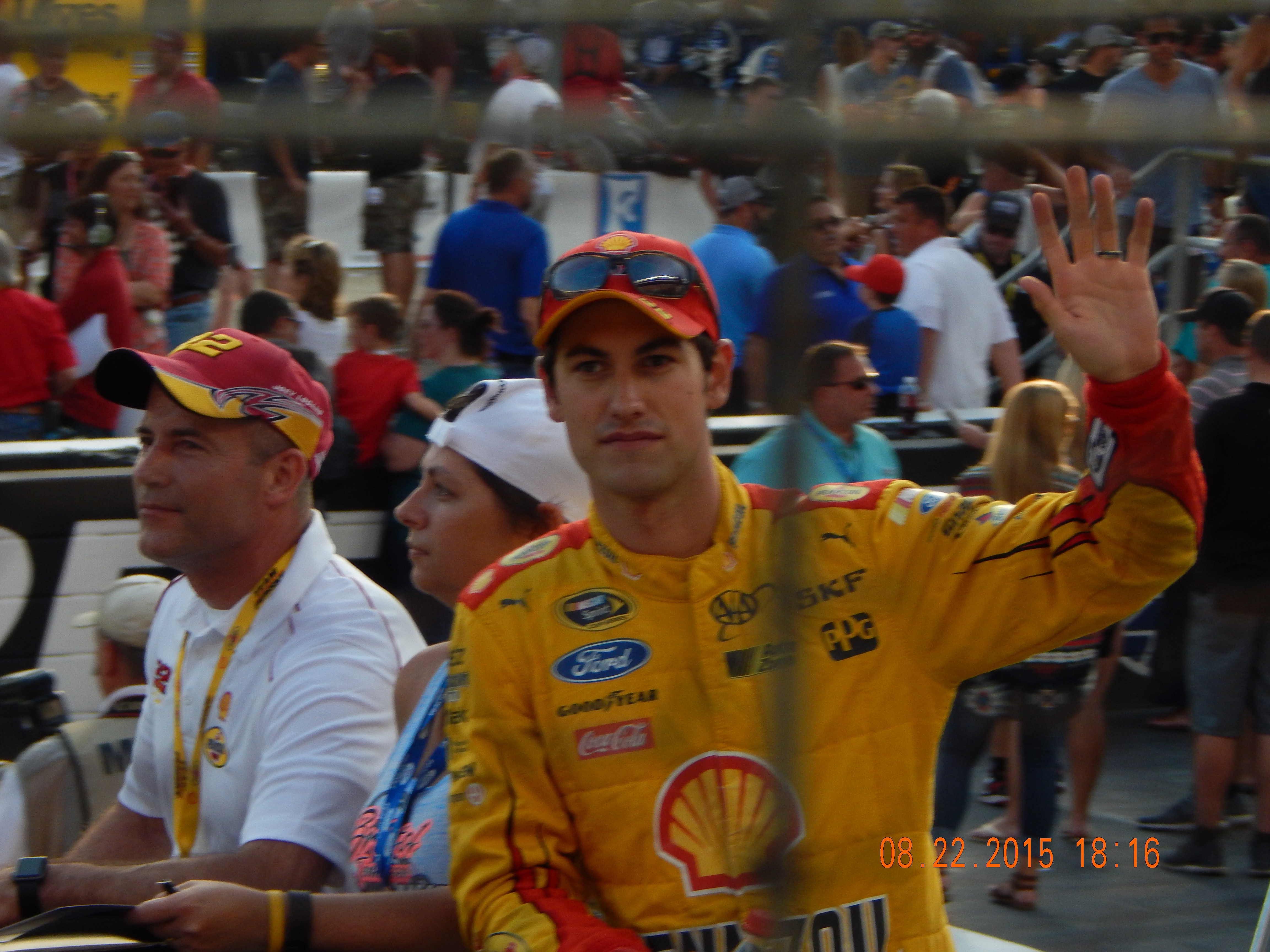 Joey Logano being introduced at Bristol Motor Speedway for the Irwin Tools Night Race.